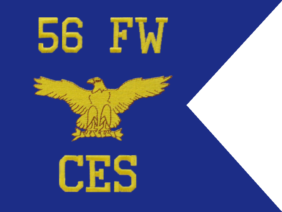 United States Air Force Guidon. Made with Photoshop from an example found at [1] This is the guidon of the 56th Civil Engineer Squadron, assigned to the 56th Fighter Wing